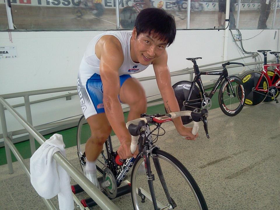 Cho Ho-sung